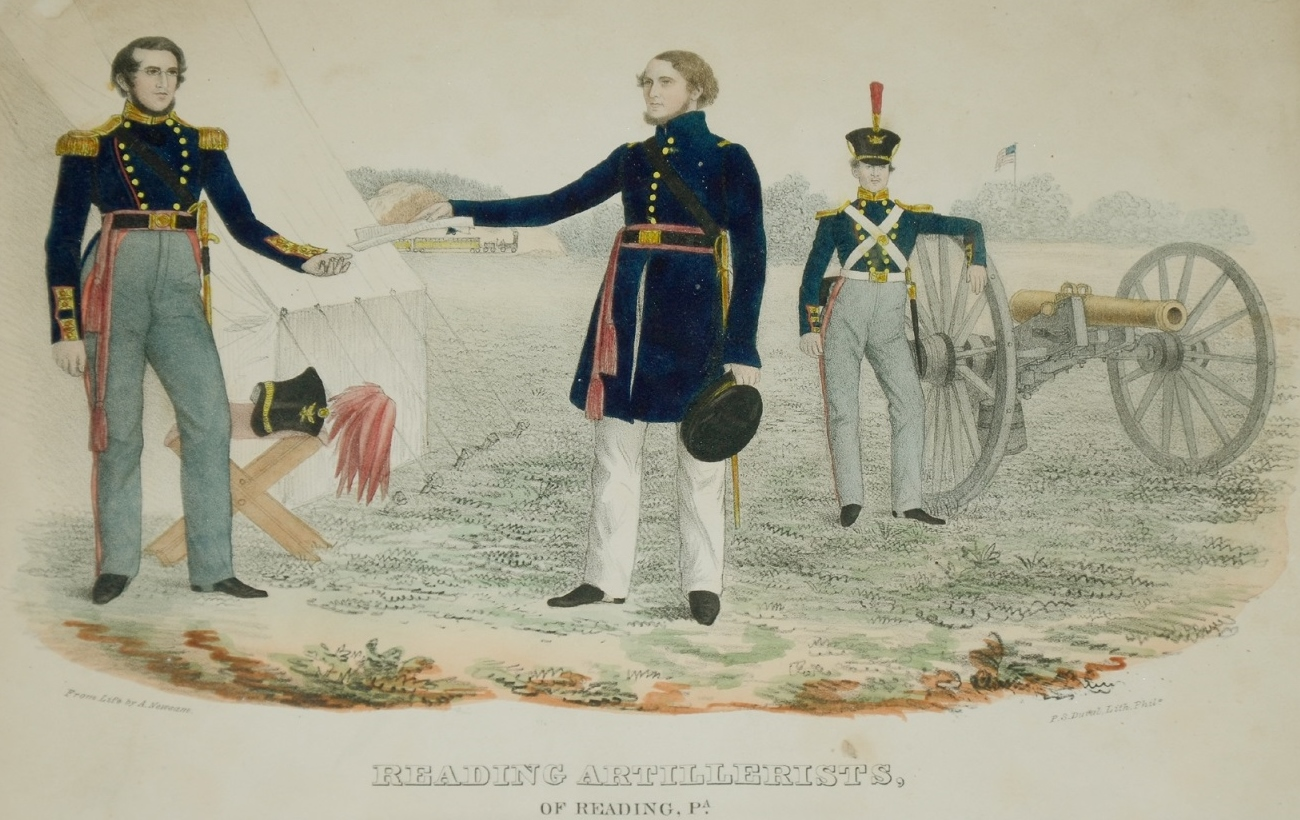 December 1841 watercolor and pencil sketch of the Reading Artillerists by artist Albert Newsam (1809-1864) for publication by Philadelphia lithographer P.S. Duval in U.S. Military Magazine (public domain).